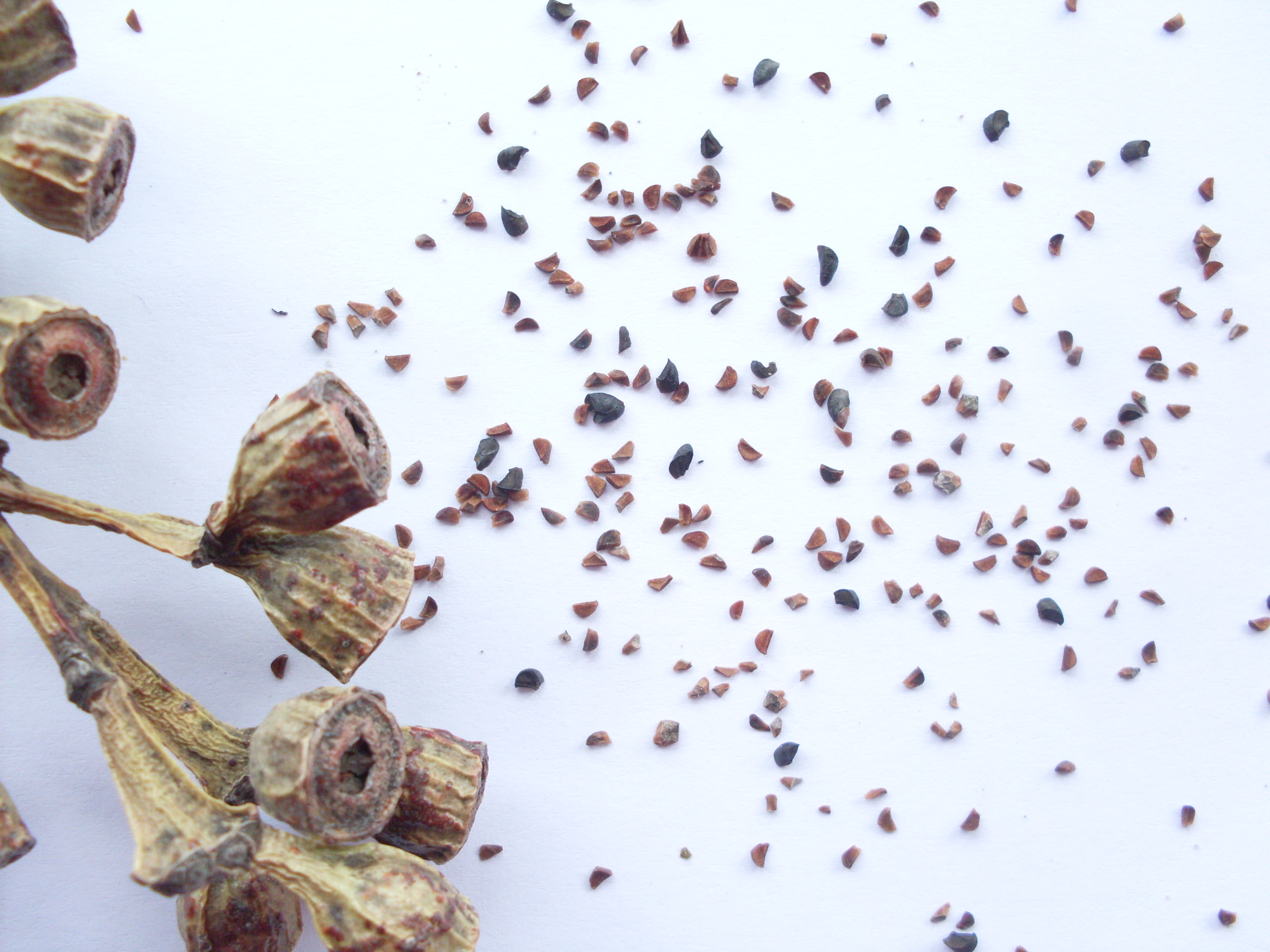 Seeds of Yellow-top Ash (Eucalyptus luehmanniana). Royal National Park, NSW Australia, May 2009.